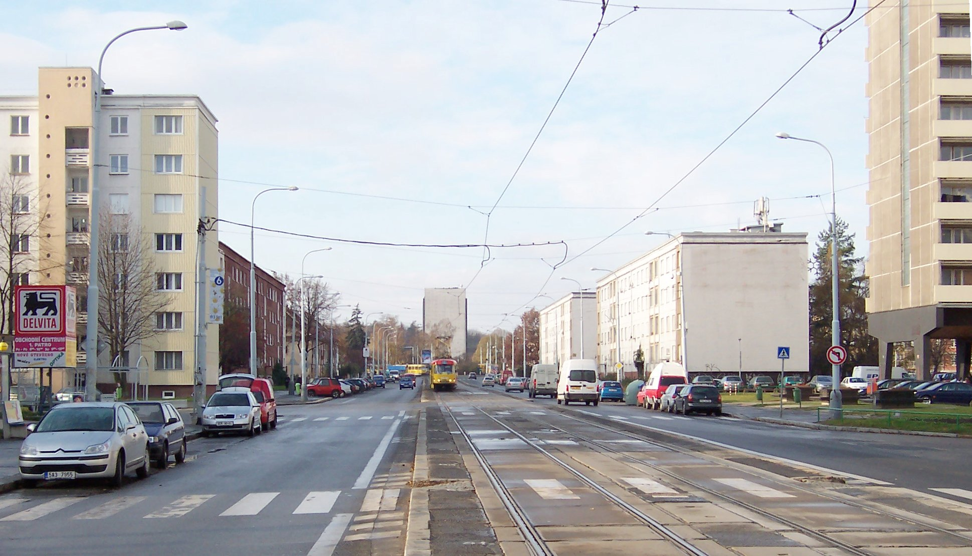 Na Petřinách Street, Prague 6, Czech Republic.